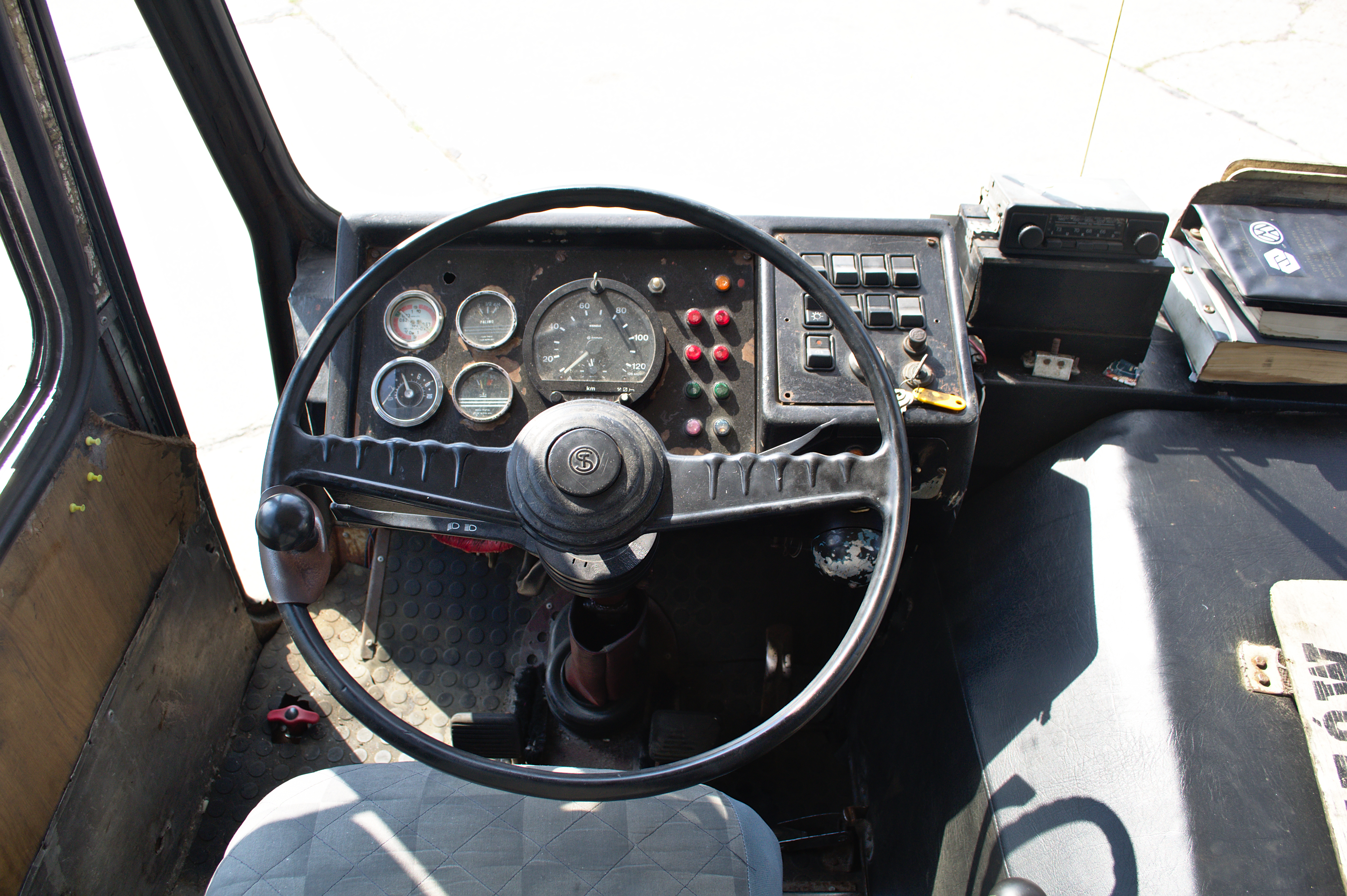 Jelcz 080. Thanks for Adam Zylbertal for making the bus available. jelcz080.pl